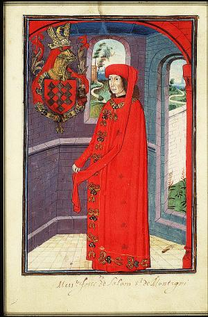 Statuts, Ordonnances et Armorial de l'Ordre de la Toison d'Or (Statutes, Ordonnances and armorial of the Order of the Golden Fleece) Place of origin, date: Southern Netherlands; 1473. Added sections: Southern Netherlands; 1478 or shortly after and 1491 or shortly after Material: Vellum, ff. 86, 249x187 (167x106) mm, 23 lines, littera cursiva (lettre bourguignonne). French. Binding: 18th-century brown leather Decoration: 1 full-page miniature (170x115 mm) with border decoration; 92 miniatures (185/155x120/100 mm); 1 historiated initial (80x90 mm) with border decoration; decorated initials with border decoration (ff., Added section: miniatures ; 4 drawings for miniatures (not finished) Provenance: Presented in 1473 by Gilles Gobet, King of Arms of the Order of the Golden Fleece, to Charles the Bold, Duke of Burgundy and the other Knights during the Chapter of the Order held at Valenciennes; Treasure of the Golden Fleece, Brussls; taken away by the Treasurer C.-F. Humyn (d. 1735) or his daughter C.Ch. de Corte; by legacy to her daughter M.-L. de Corte, wife of Ph.-E. de Poederlé; purchased in 1781 at the Poederlé sale by G.-J- Gérard of Brussels; acquired in 1832 as part of the Gérard collection (no. A 27)